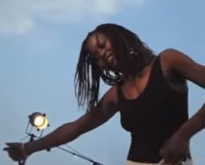 Dorothée Munyaneza singing and dancing to Yitwa Mandela (He was named Mandela) at the Farniente Festival in Saint-Nazaire, July 20, 2013. Production and artistic direction by Gérard TERRONÈS and Jean-François PAUVROS. Video by Bénédicte Fayet.